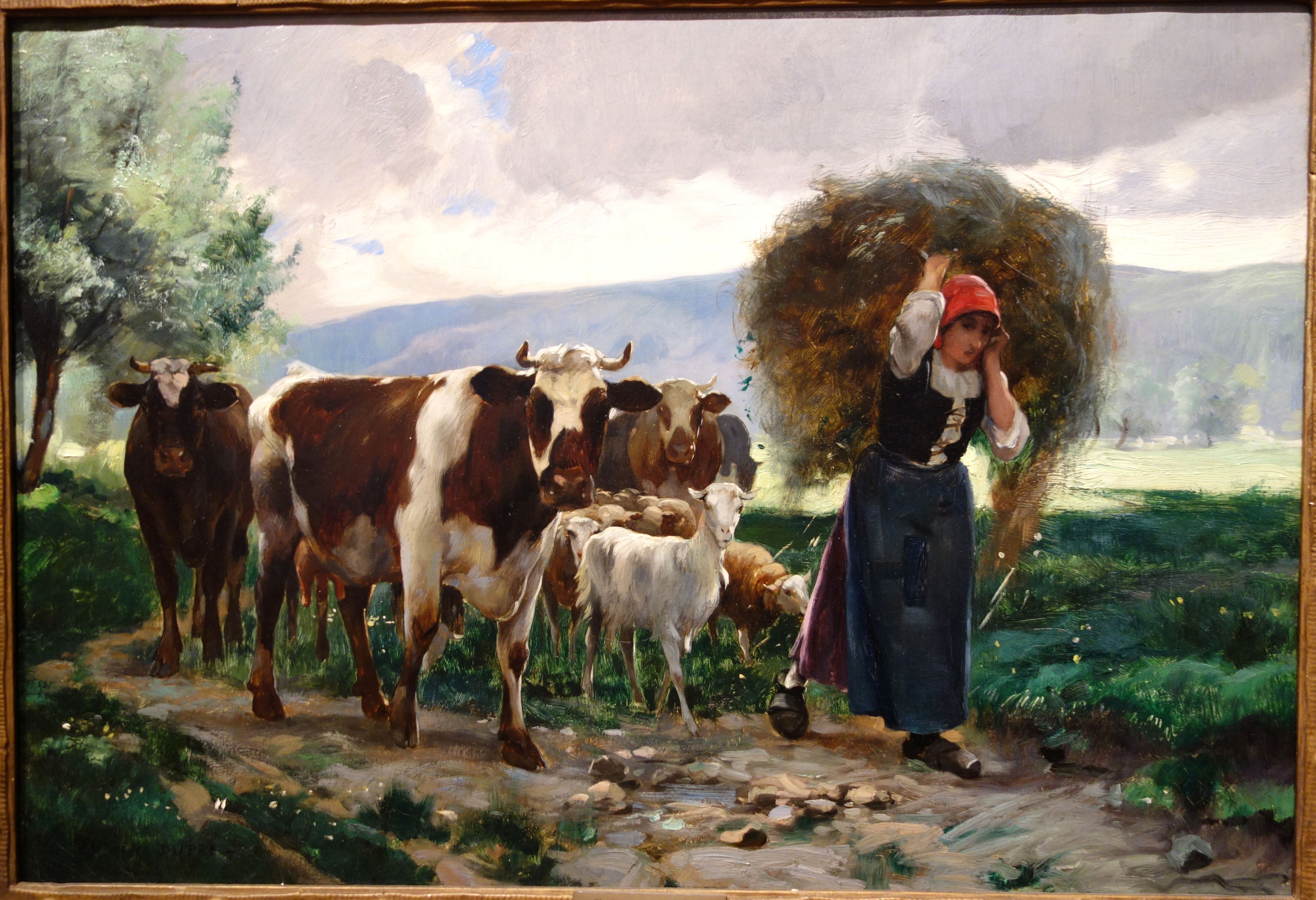 Returning Home